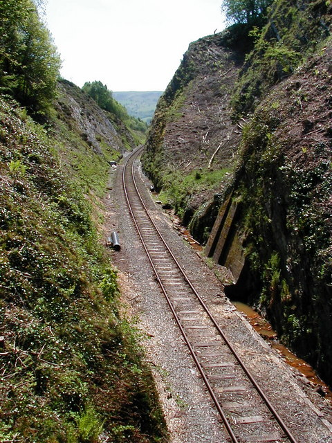 Railway Cutting at the summit of Talerddig bank, near to Talerddig, Powys, Great Britain. At just over 700 feet at the summit, Talerddig has always presented a challenge to railway operators and in steam days most trains required an assisting engine.